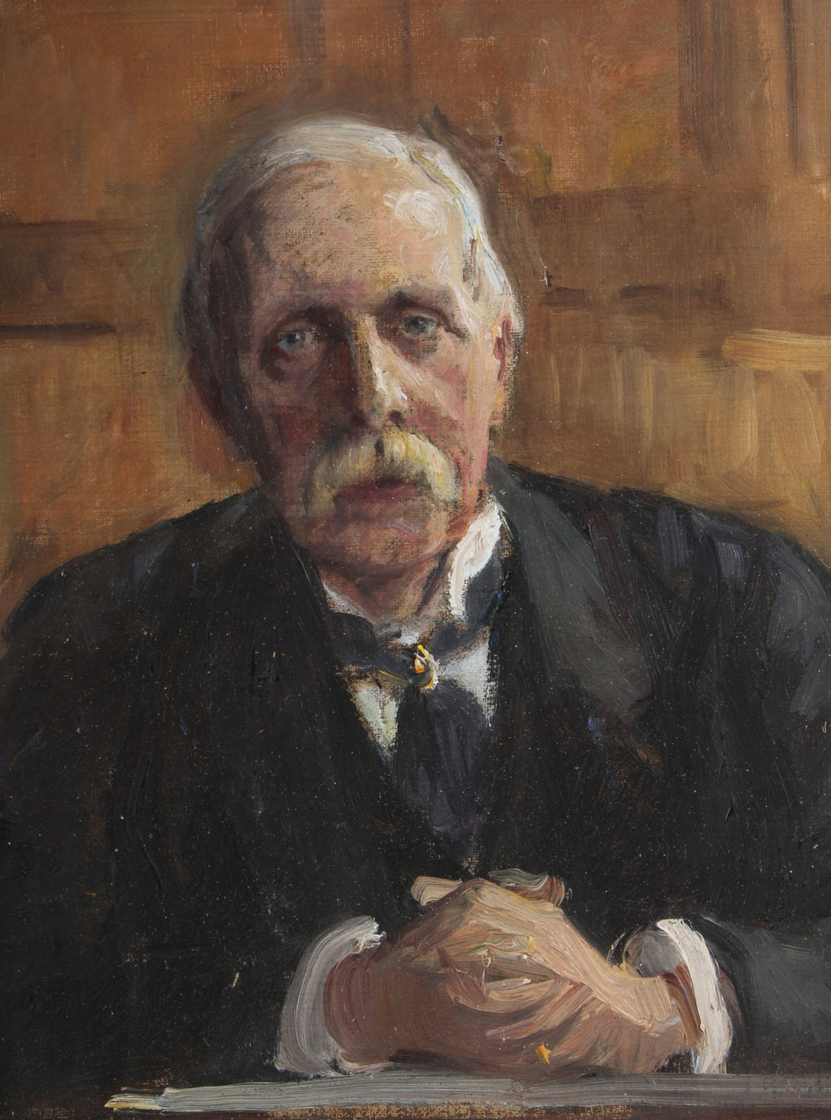 Knud Larsen: Portræt af Grosserer Halkier (Jacob Gotfred Halkier, born 1837))